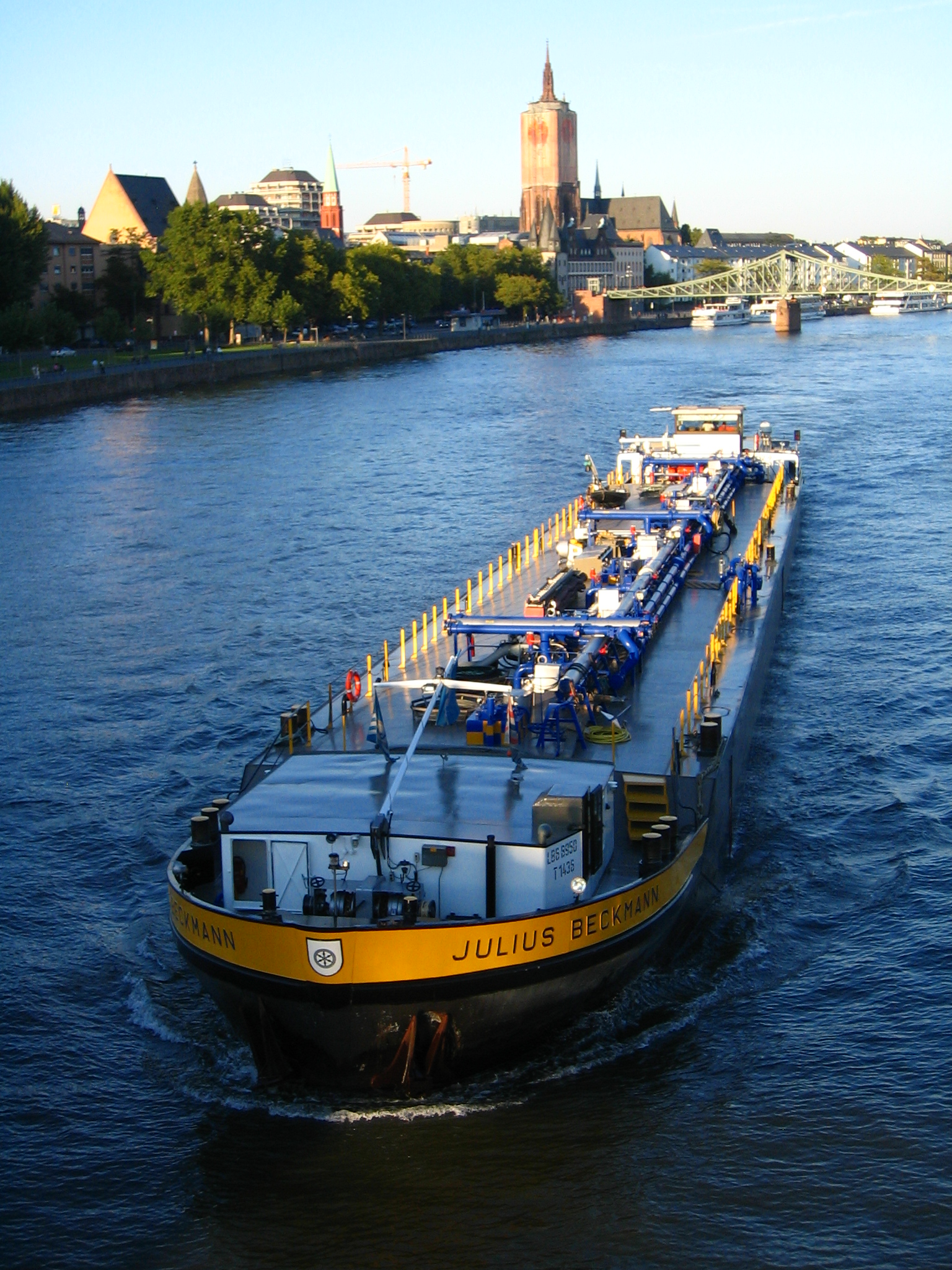 The TMS Julius Beckmann (86 meters long, 9.5 meters wide, 1436 tons) on the Main River, Frankfurt am Main. Photograph taken from the Untermain Brücke.